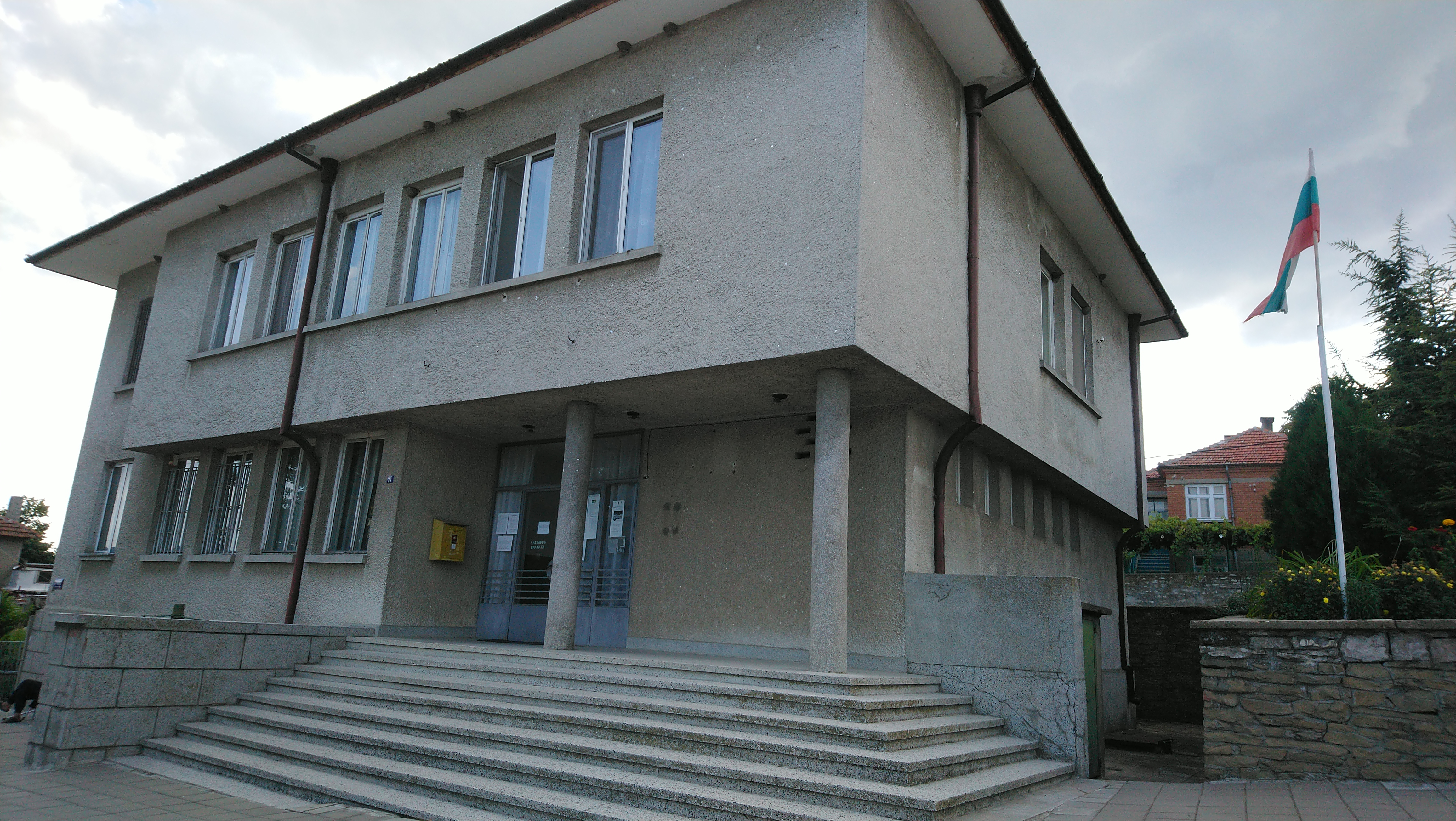 Prilep (Burgas Province) mayor office